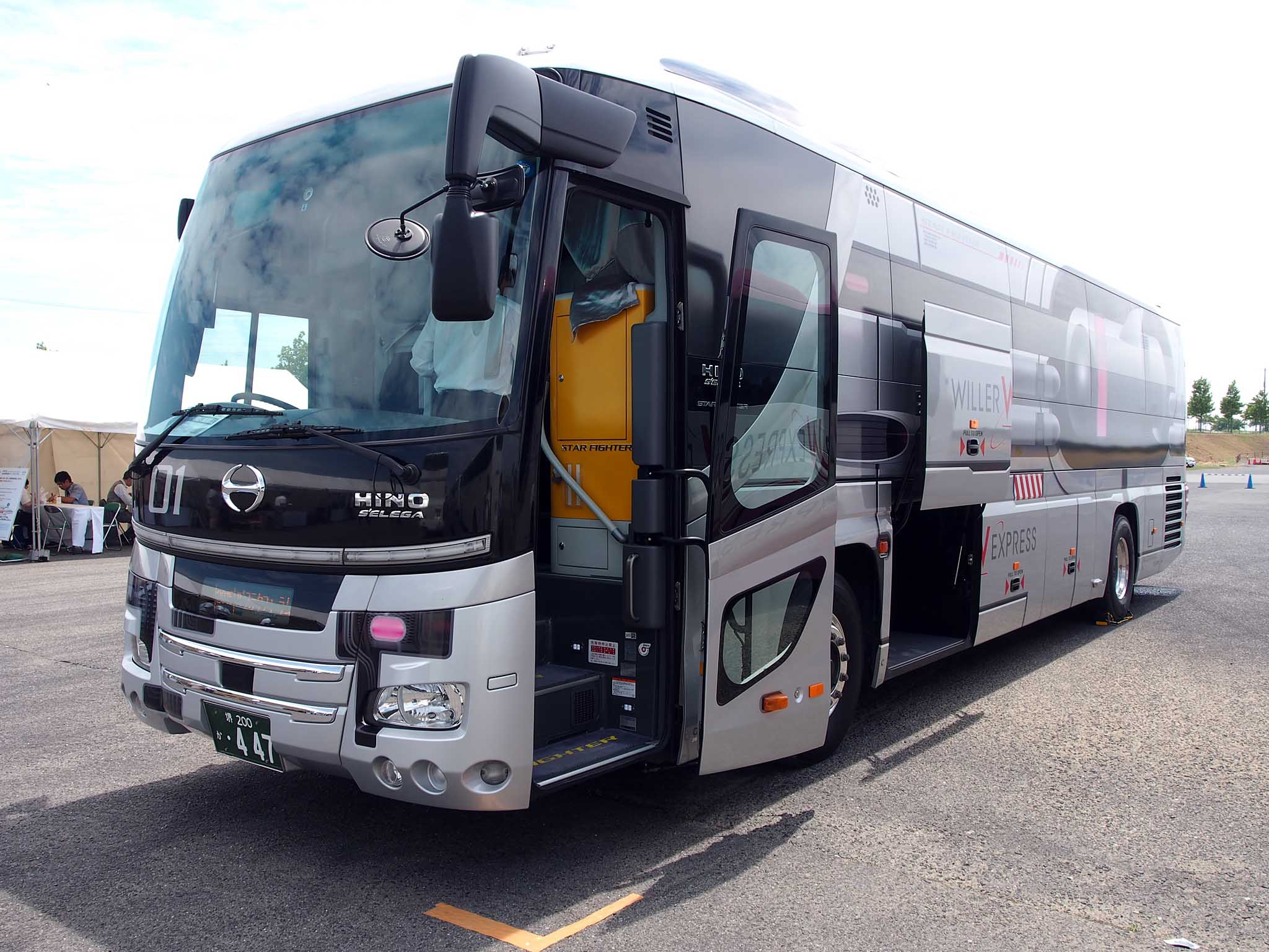 "Star Fighter", space attraction bus of Willer Express Group. Model: Hino Selega HD QRG-RU1ASCA License plate: OSS200KA-447 ex.ACN200KA3232 (at Willer Express Tokai) Place: Maishima, Konohana Ward, Osaka City, Osaka Japan Displayed at "Bus Tech Forum 2015"